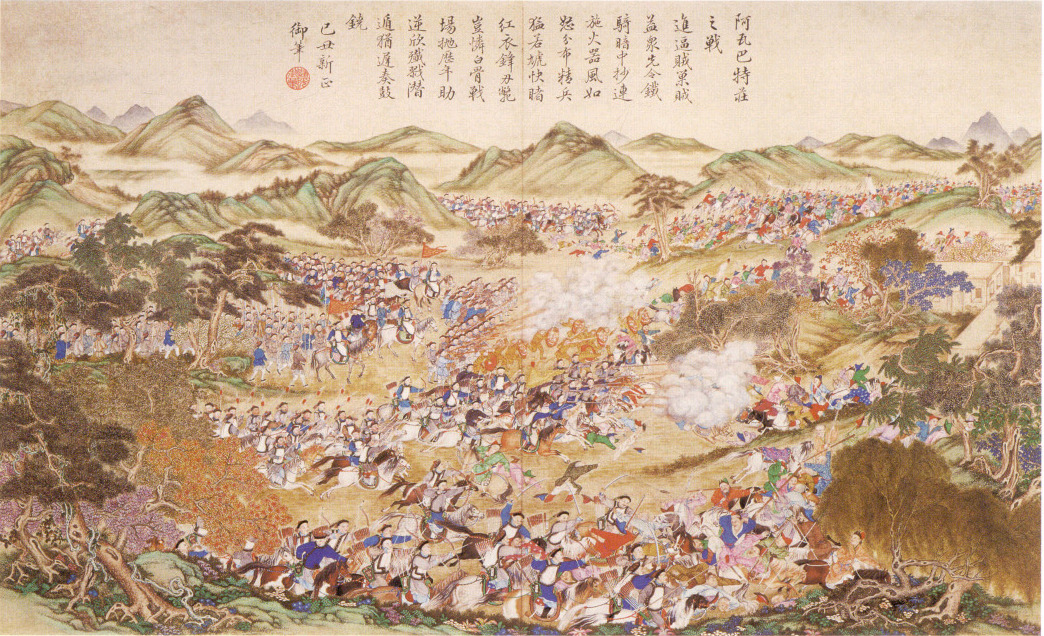 A scene of the Chinese Campaign against Rebels in the East turkestan, 1828